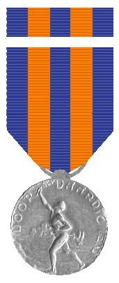 Medal for general ableness Royal Dutch Indian Army 1919